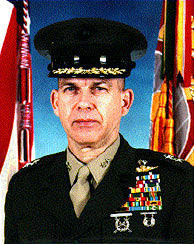 Official photograph of Major General Wayne E. Rollings, United States Marine Corps.